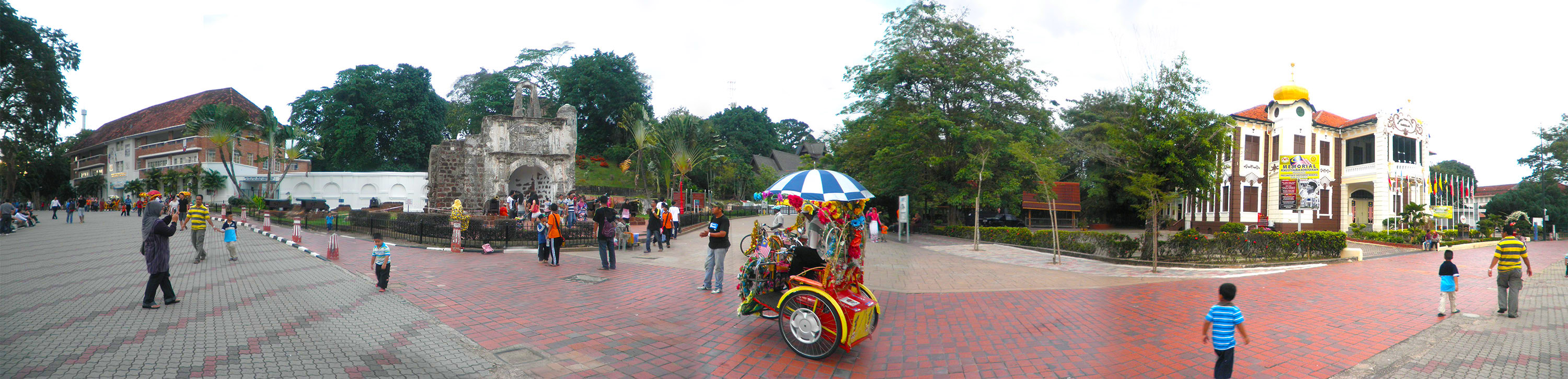 A panoramic view of the A Famosa in the Historical City of Malacca, Malaysia.